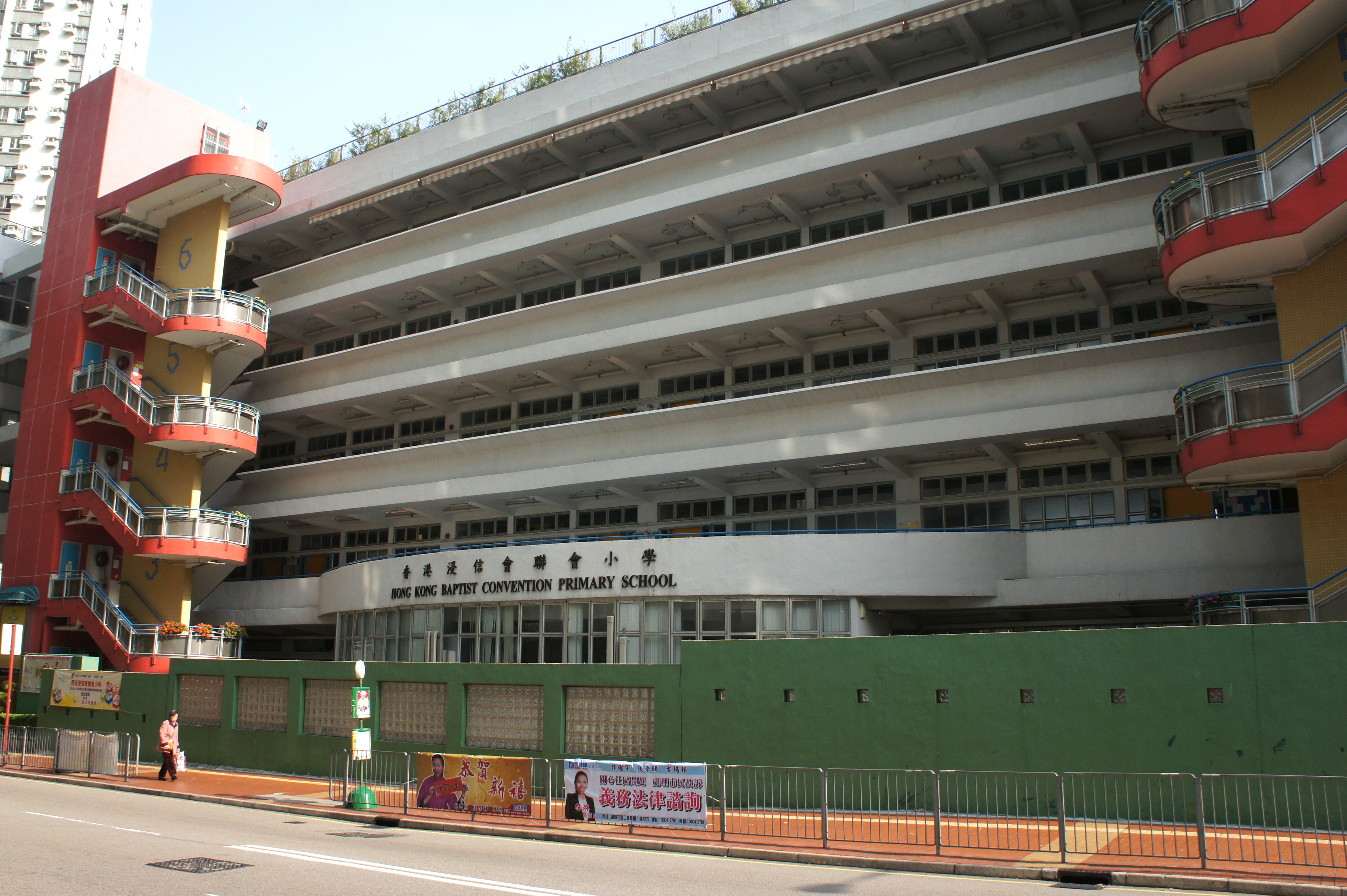 Hong Kong Baptist Convention Primary School, Tsuen Wan, New Territories, Hong Kong.